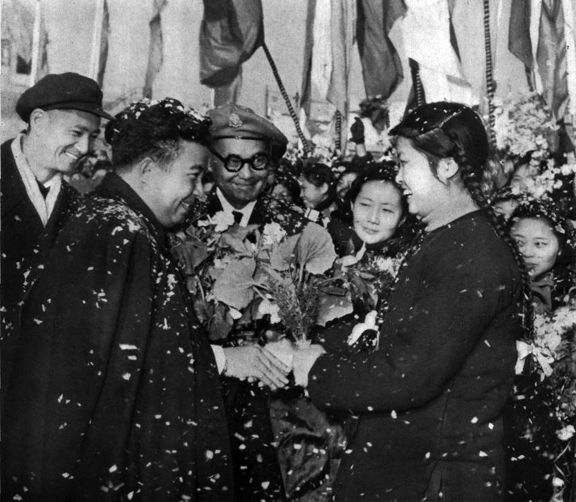 Norodom Sihanouk visits China.